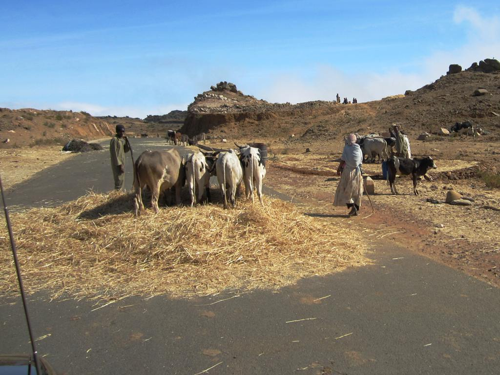 Farmers using cattle to thresh wheat on the Filfil road north of Asmara, Eritrea.